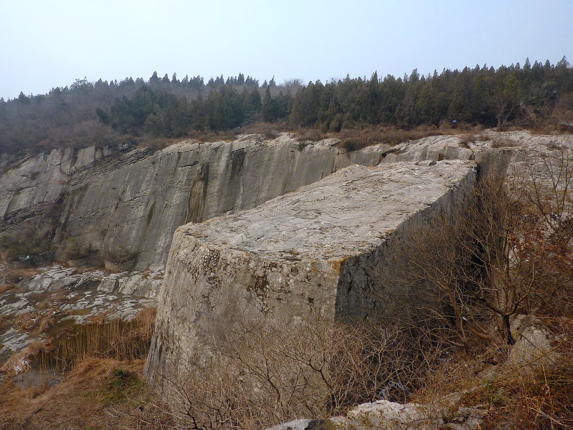 The Monument Base (center) in Yangshan Quarry, separated by a "channel" from the adjacent body of the mountain